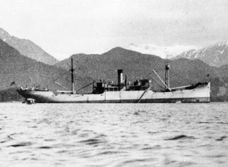 USS Gold Star (AG-12), at anchor off Sitka, AK. in September 1922.